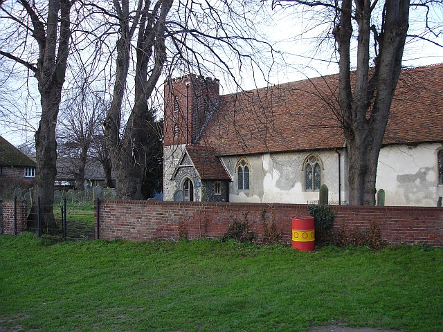 Church of St Mary, Luddenham Surrounded by the farm buildings of Luddenham Court, this church with its small, 19th century brick tower is quite hard to spot from any distance. The last recorded service here took place in 1971.